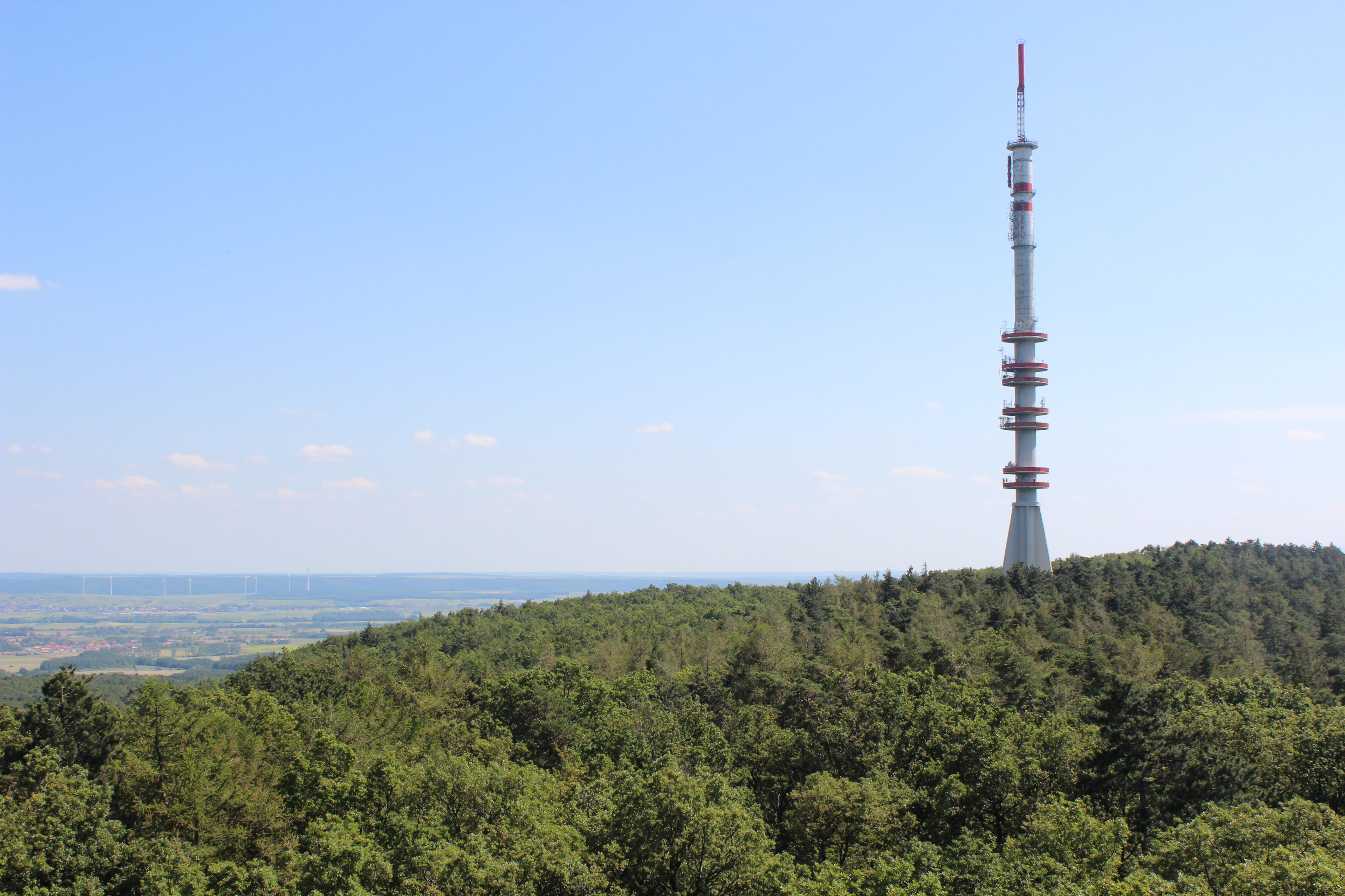 TV tower (Sopron, Hungary), photographed from Károly Lookout Tower.